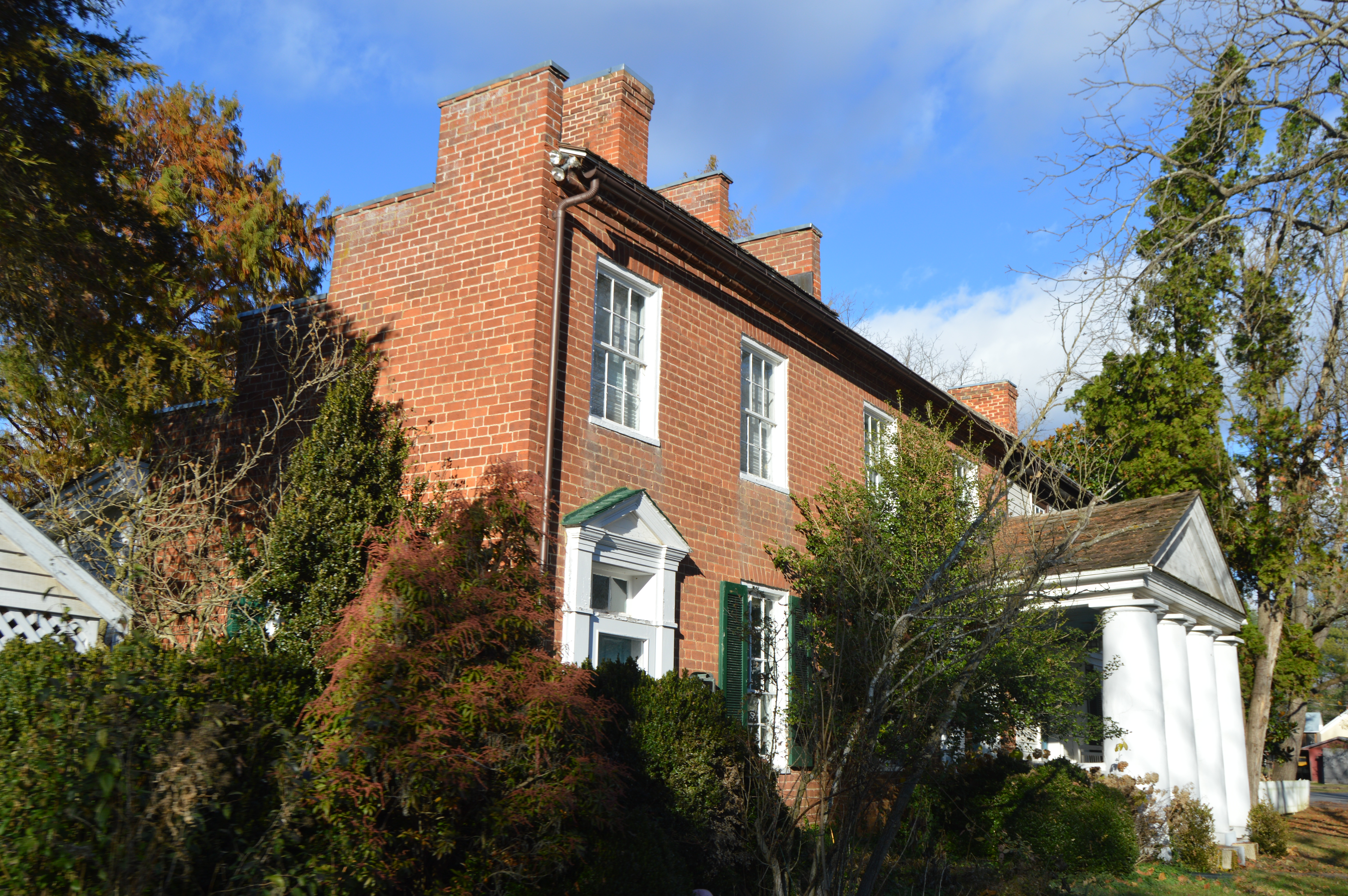 Western side and front of a house (originally the Dundore Office), located on Water Street just west of the Methodist church in Rockingham County, Virginia, United States. Along with much of the rest of the community, this house is part of the Port Republic Historic District, a historic district that is listed on the National Register of Historic Places.